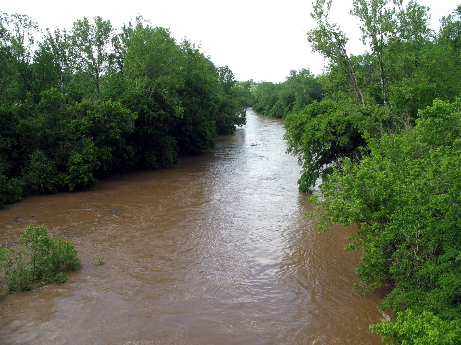 Germanna Ford, Route 3 overpass, Locust Grove, Virginia